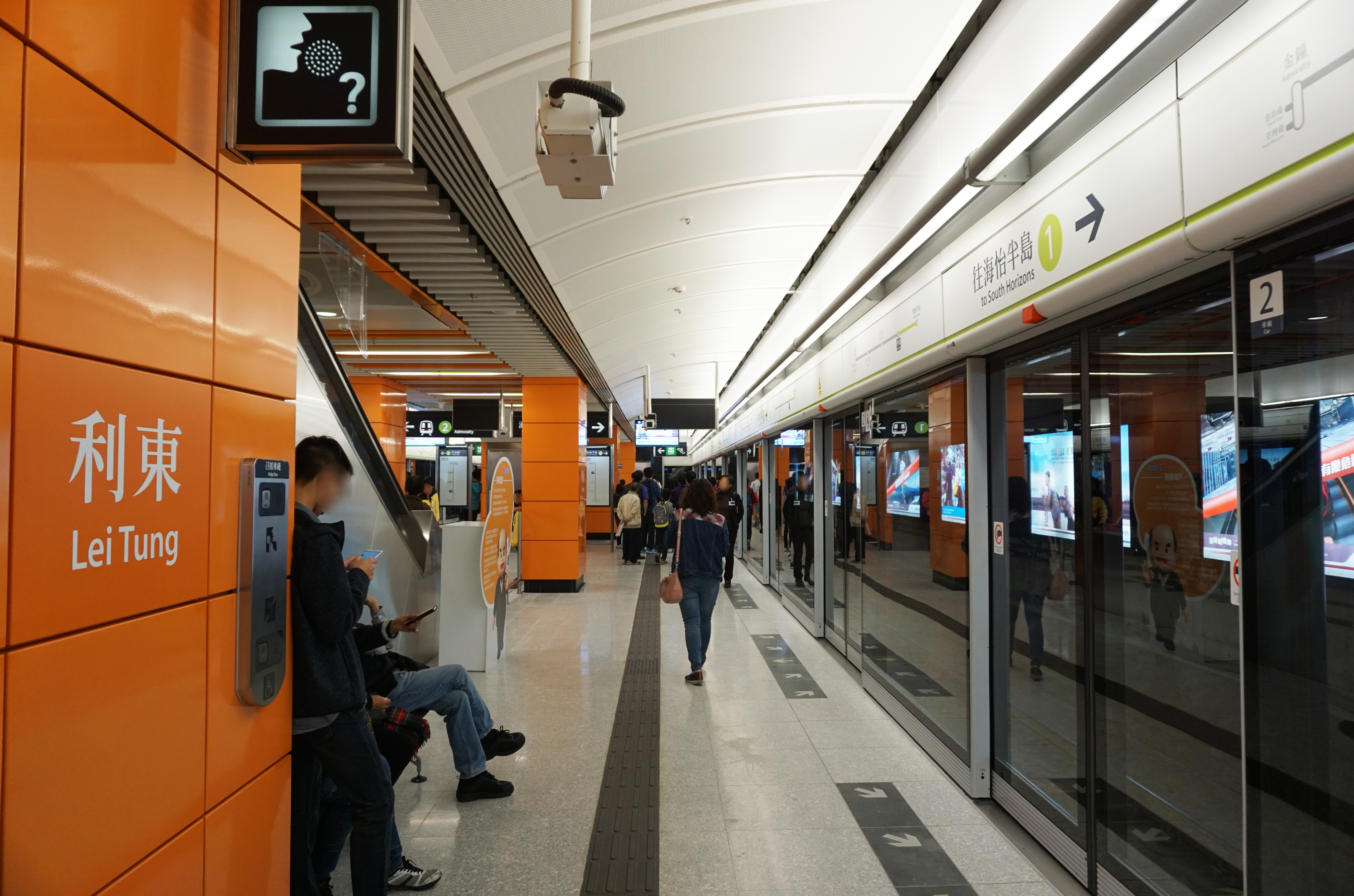 Lei Tung Station in Ap Lei Chau, Hong Kong.